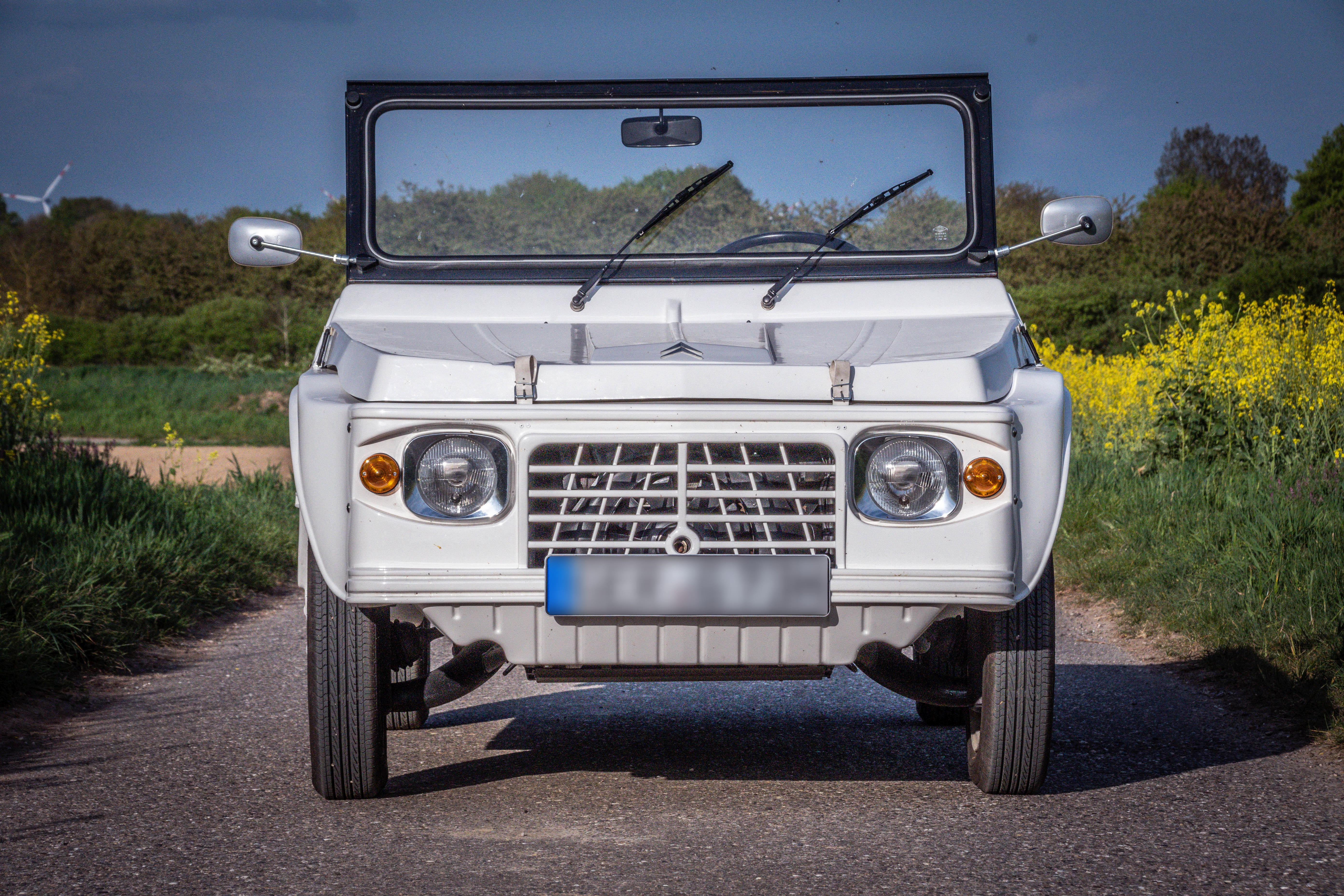 Citroën Méhari old version of bodywork